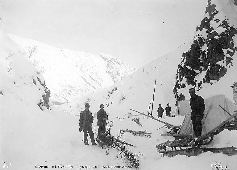 Caption on image: "Canyon between Long Lake and Linderman copyright 1898". Original image in Hegg Album 1, page 44. Klondike Gold Rush. Subjects (LCTGM): Canyons--British Columbia; Tents--British Columbia